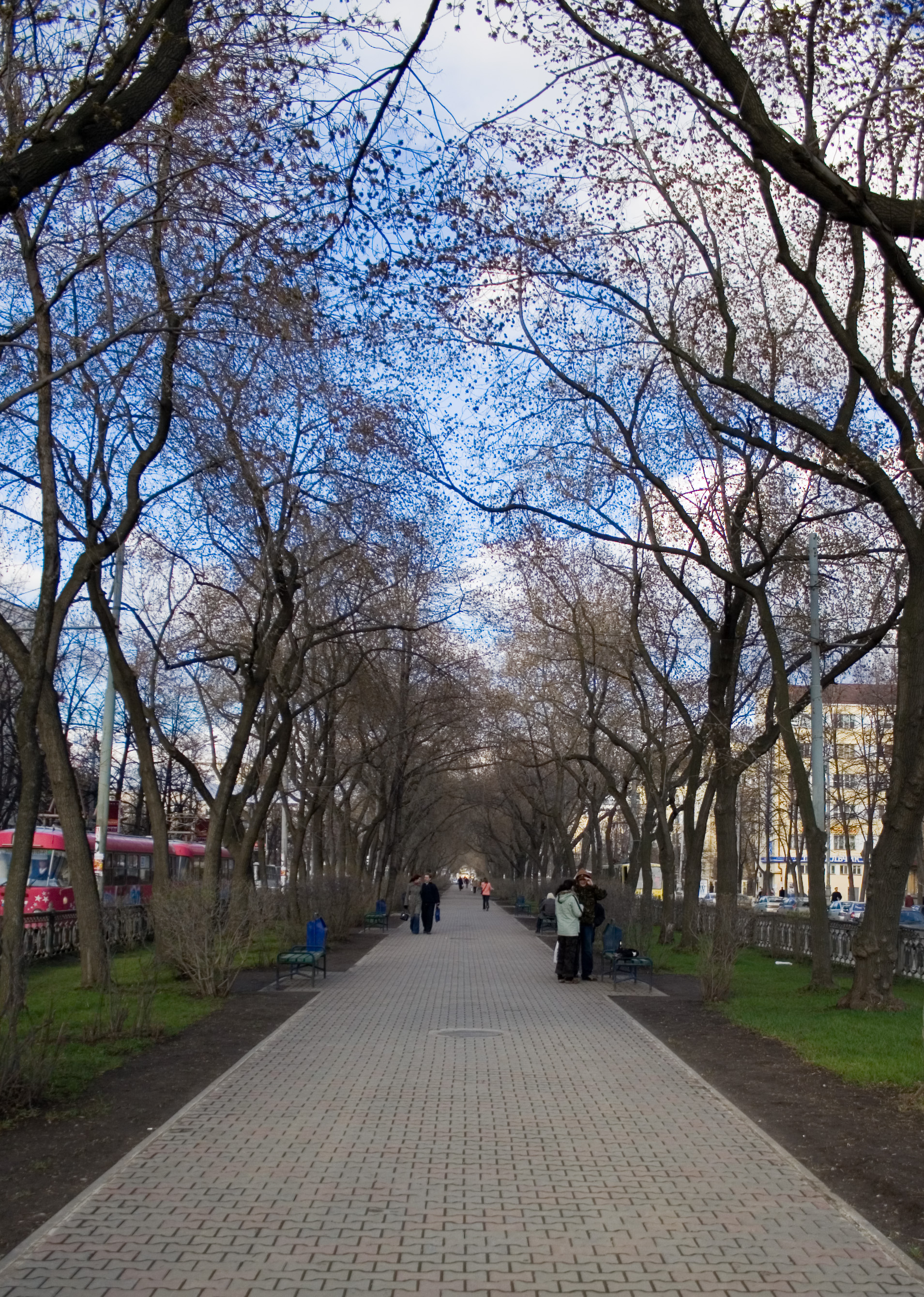 Yekaterinburg, boulevard on the Lenina street.